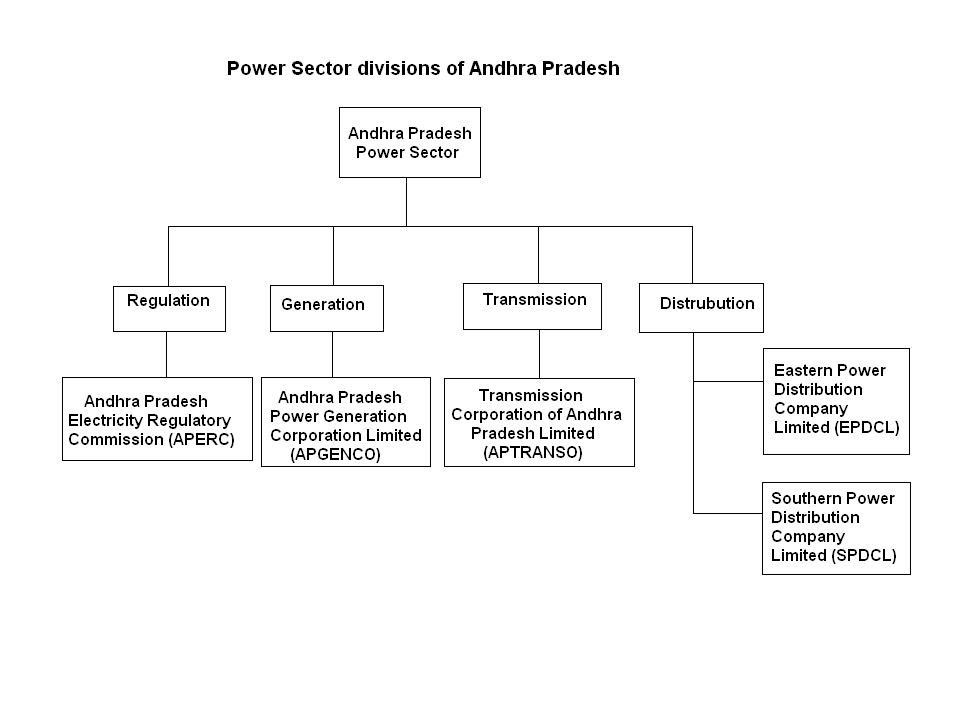 It is about power sector of Andhra Pradesh in a flow chart diagram